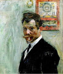 Selfportrait with cigarette